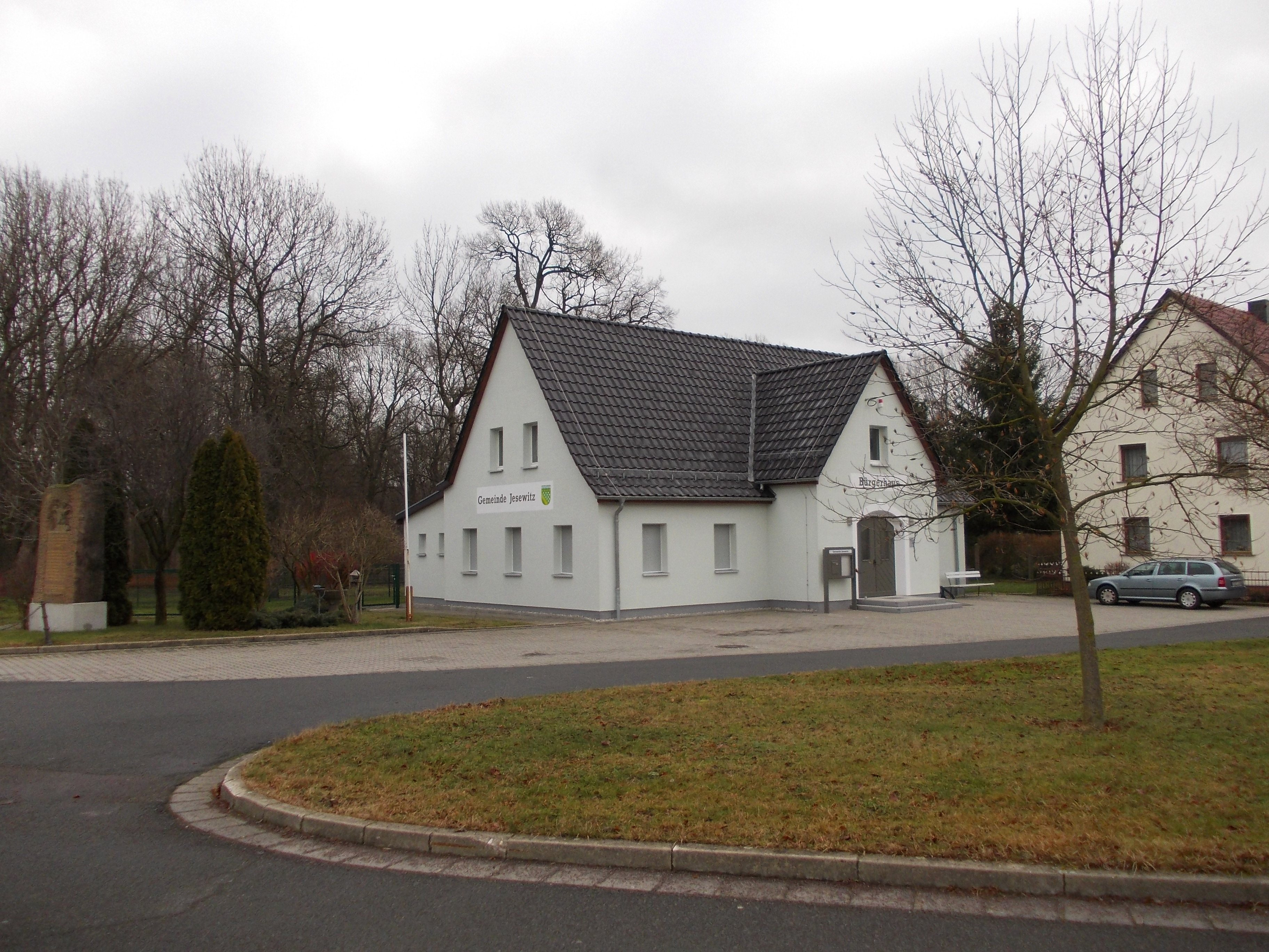 "Citizen's house" (municipal offices and library) in Jesewitz (Nordsachsen district, Saxony)